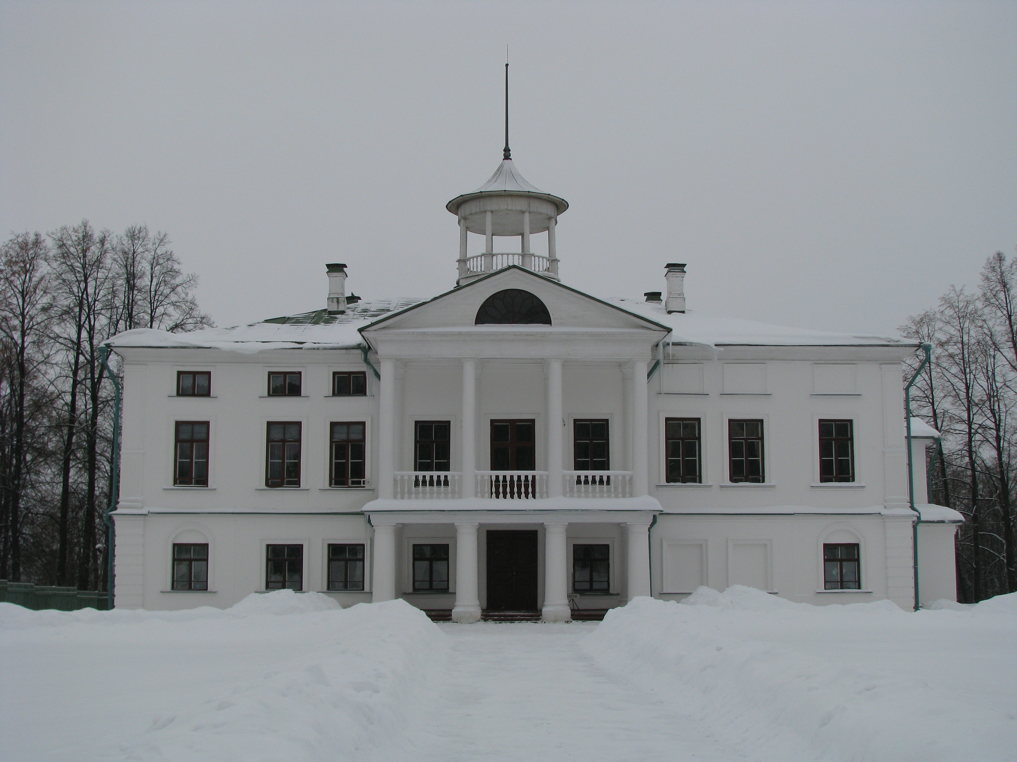 The Galitzine-Nekrasov country house in Karabikha